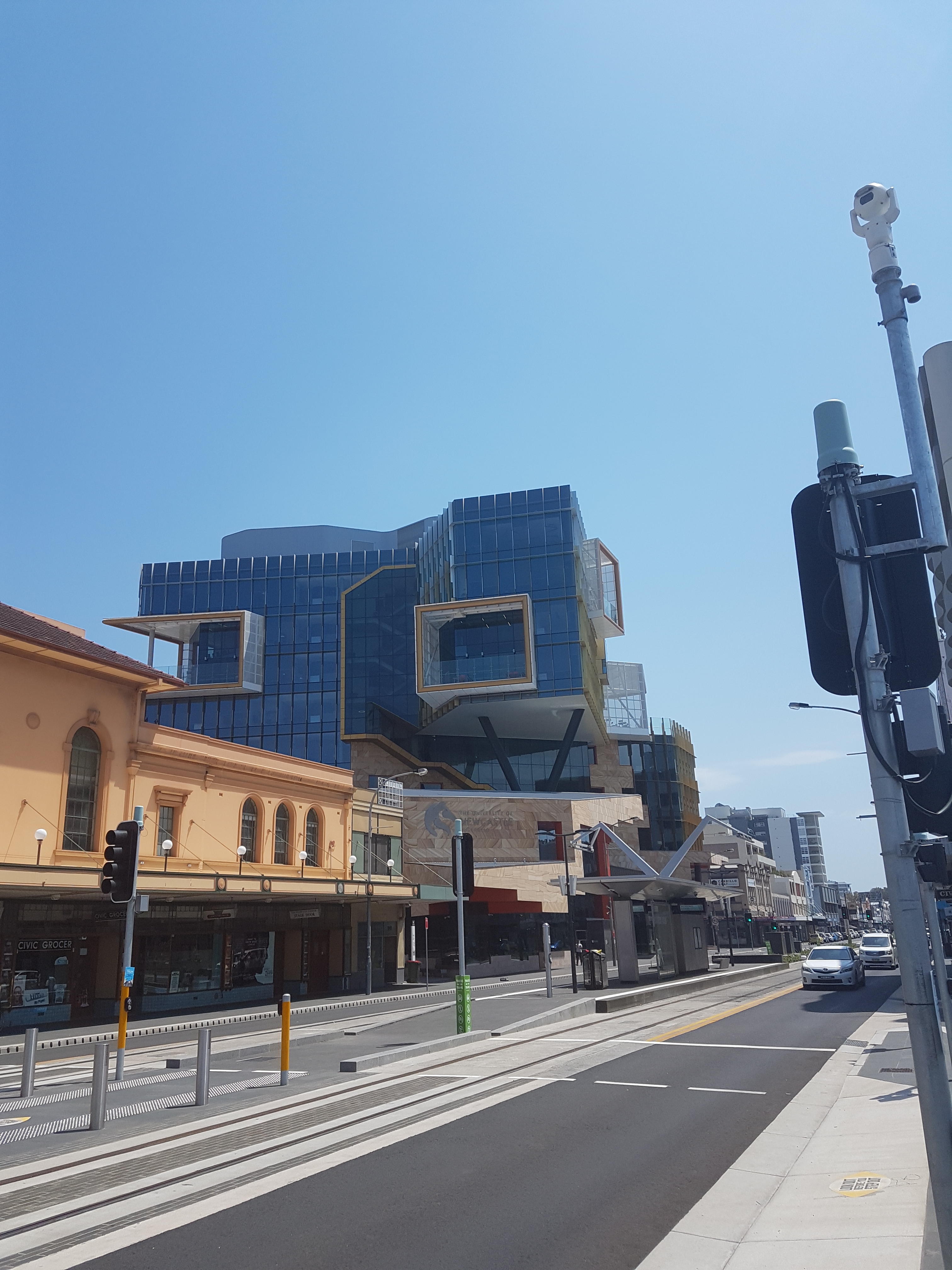 Newcastle Light Rail Civic station